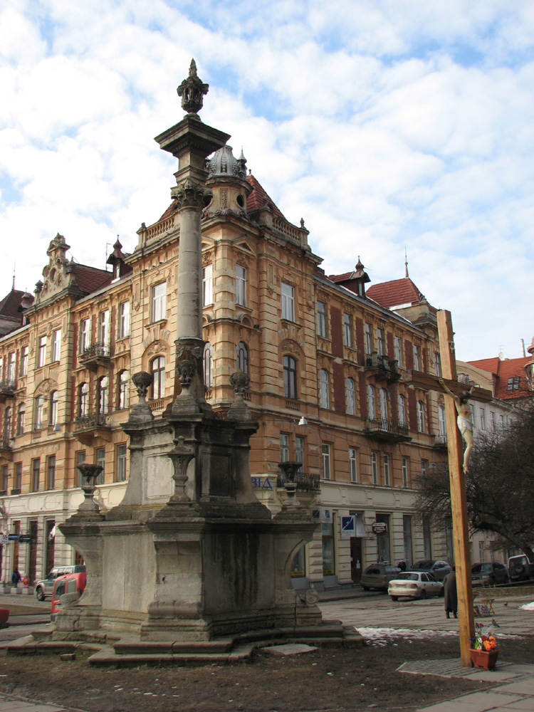 Bernardine church and monastery in Lviv